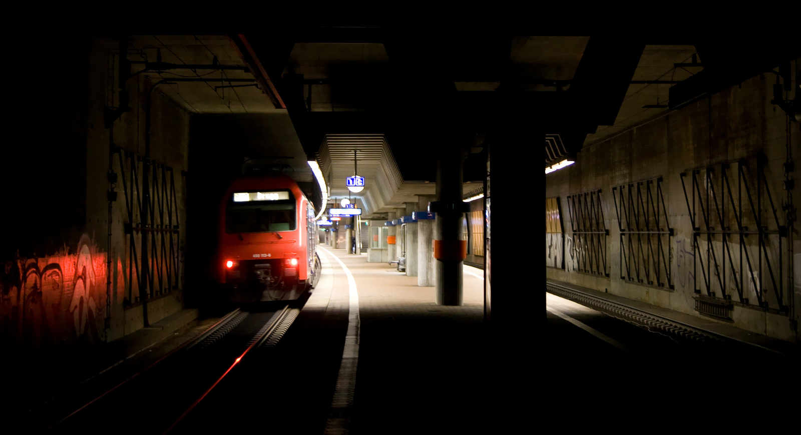 Bahnhof Stettbach bei Nacht/Stettbach railway station by night